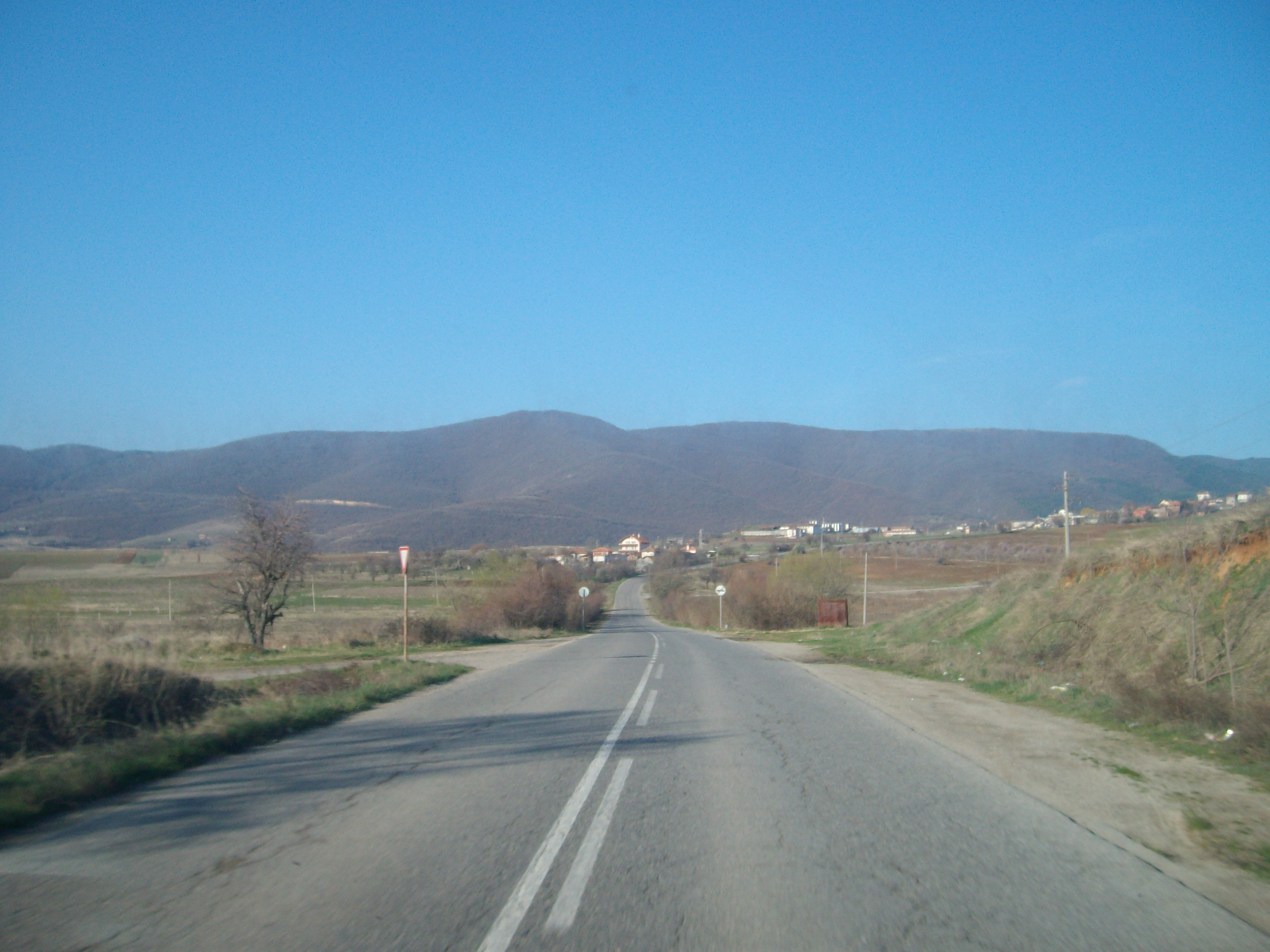 The village of Logodazh seen from the entrance from Blagoevgrad